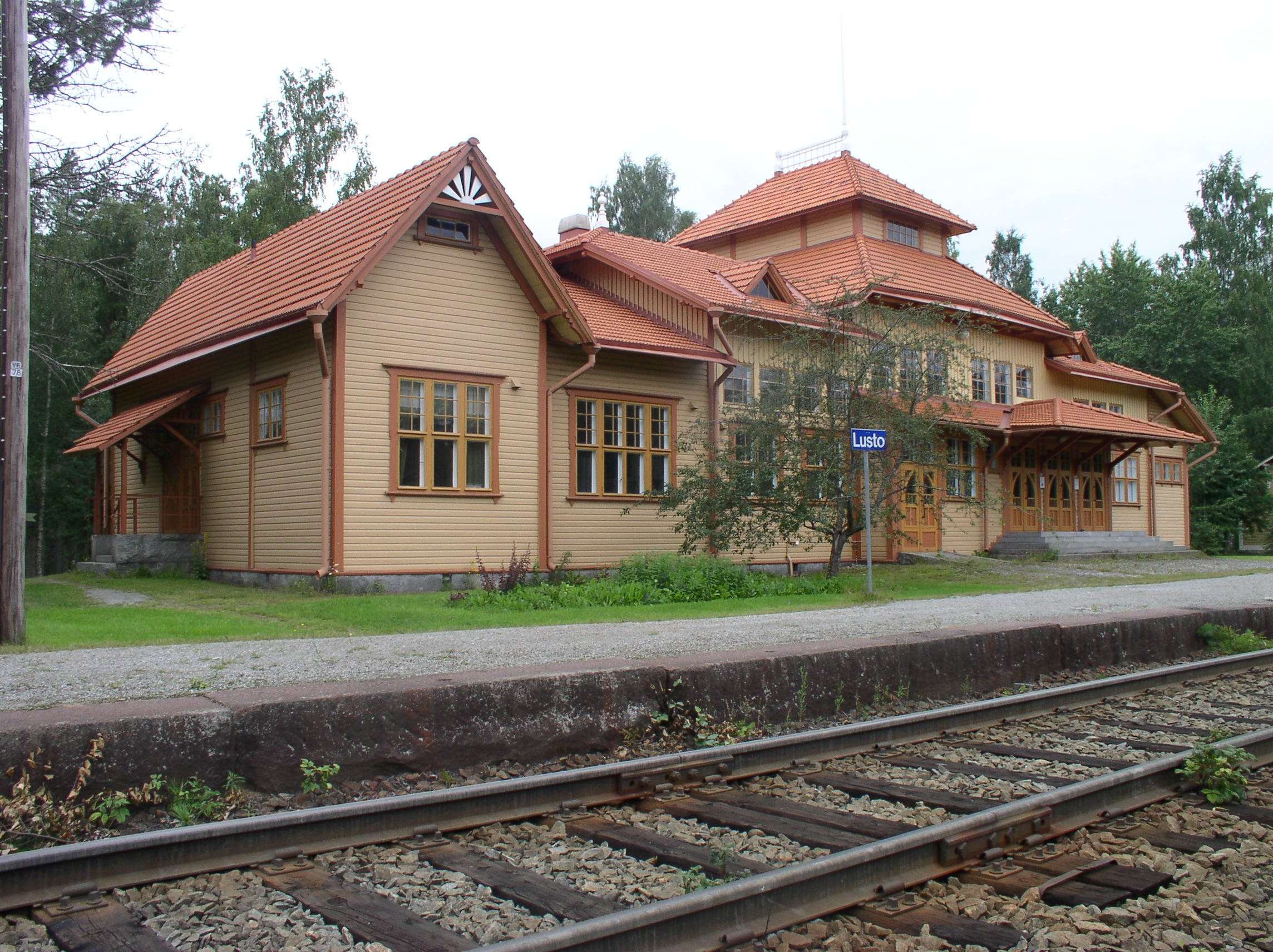 Lusto railway station, Punkaharju, Finland